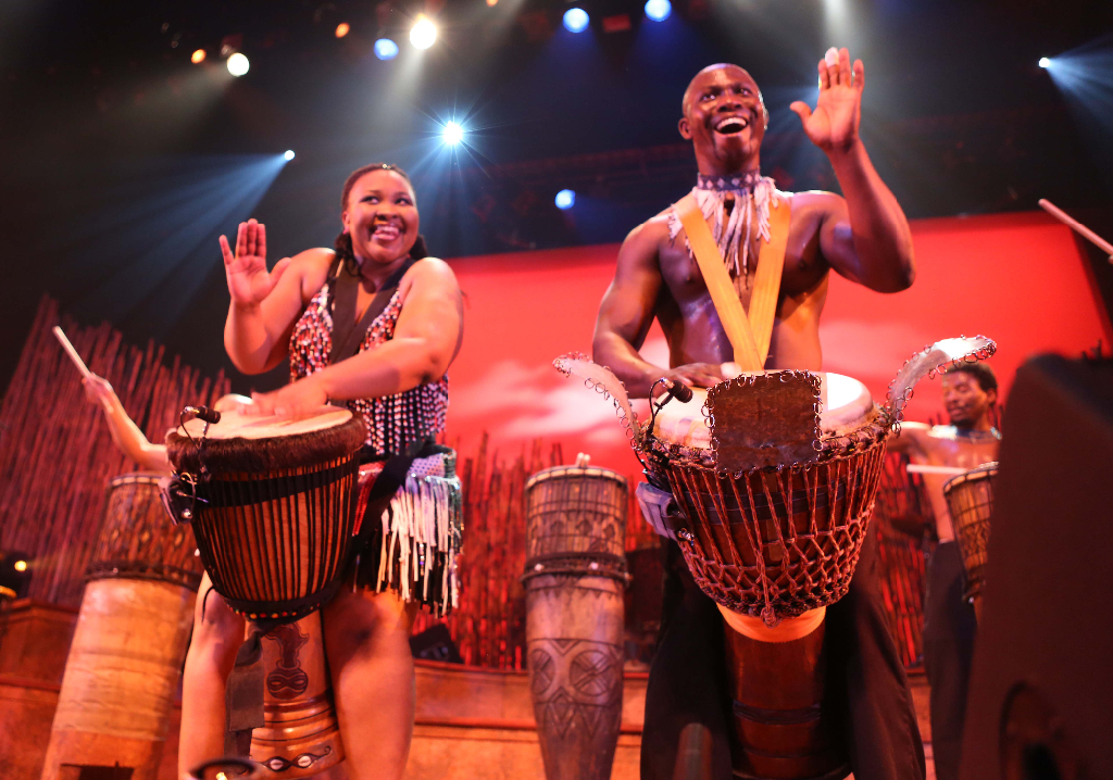 Drum Struck